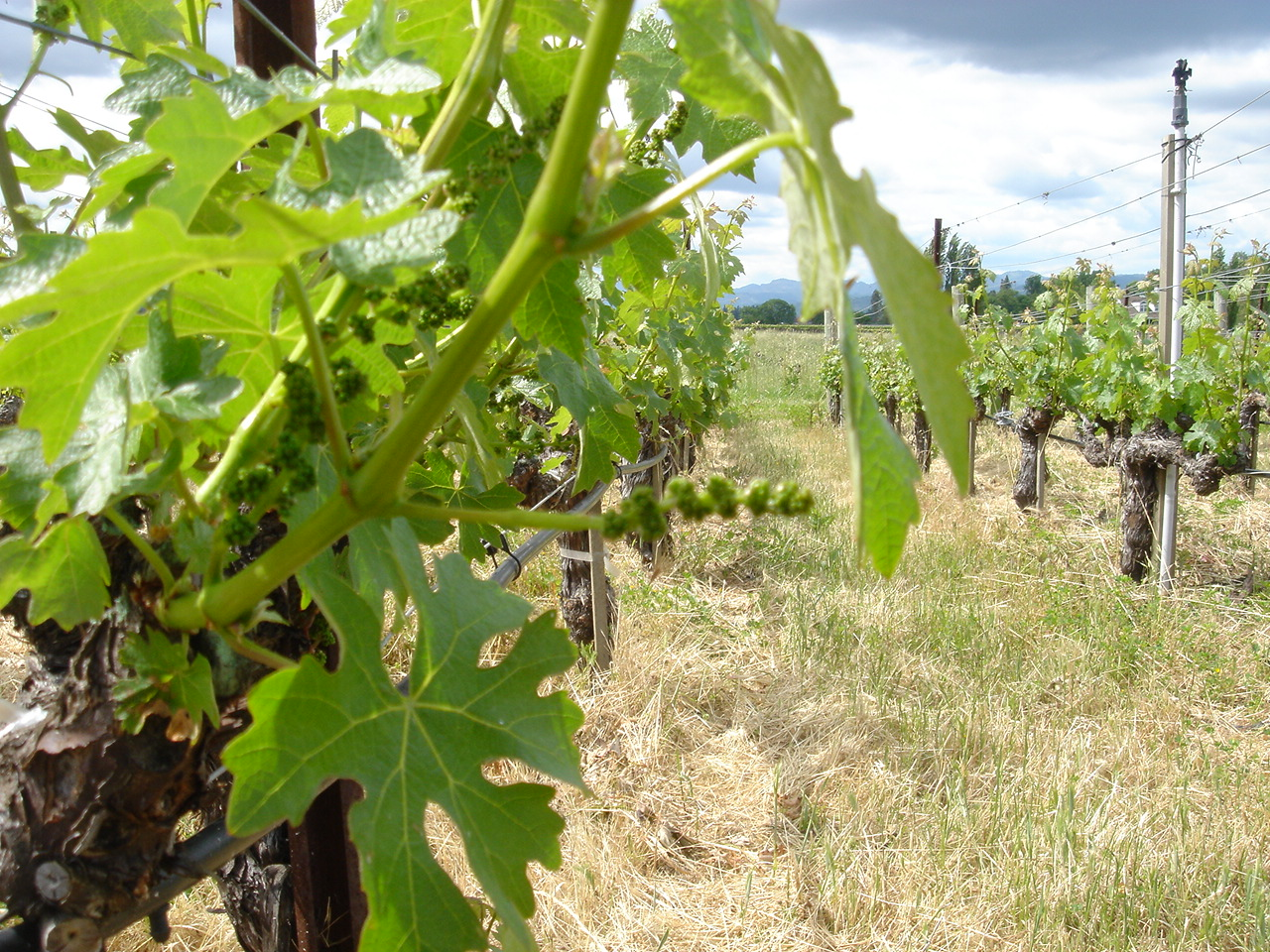 Cabernet Franc grapes going through flowing at the California winery of Opus One in the Napa Valley.